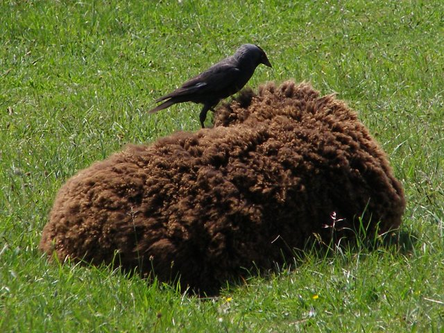 Jackdaw on a Hebridean sheep, St Catherine's Hill The St Catherine's Hill nature reserve is now grazed by a flock of Hebridean sheep. In this photo one of the flock is having a rest in the sun, while a jackdaw (?) picks ticks (?) from its fleece. Both creatures benefit.